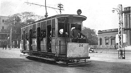 A tram in Delhi.